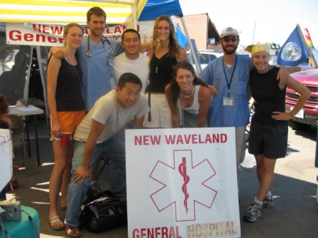 A photo of some of the staff at the New Waveland Clinic